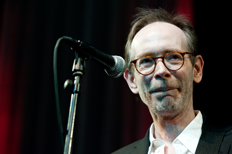 Arto Lindsay (with guests) at moers festival 2010